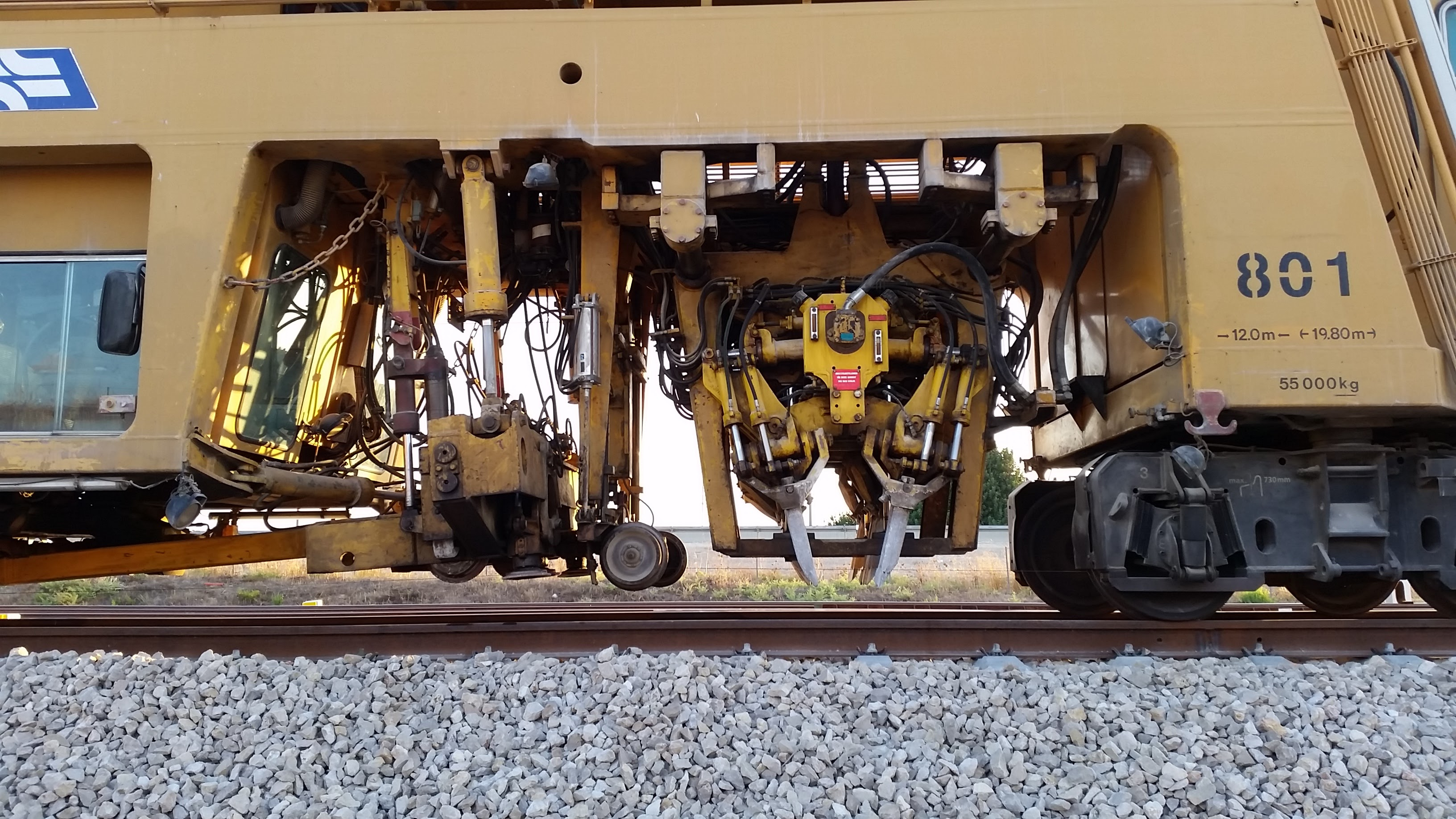 Tamping machine No 801 of Israel Railways Plasser & Theurer Unimat 08-275 Tamping System